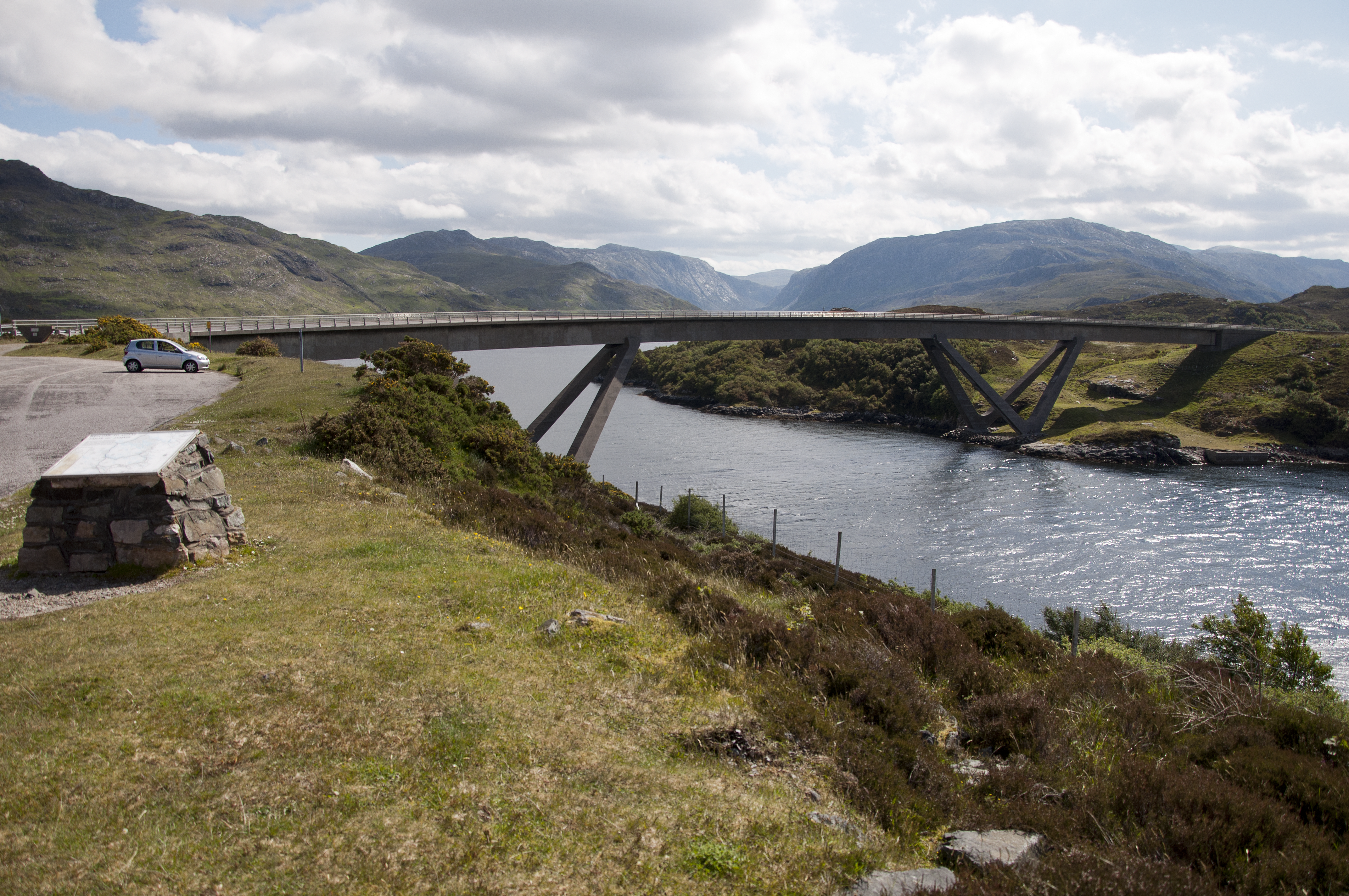 Kylesku bridge, Kylesku, Sutherland, Scotland